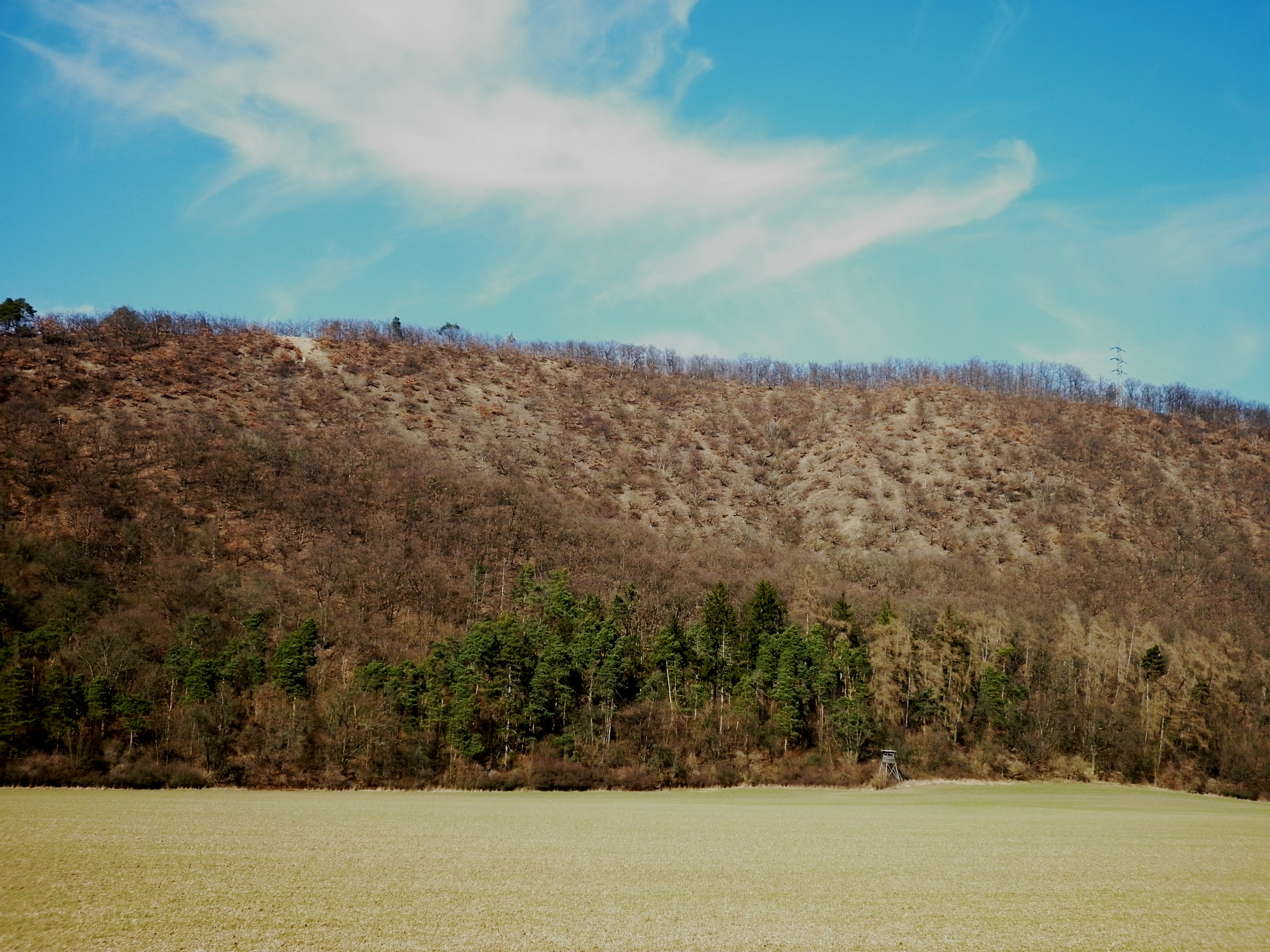 Natural monument "Krásná stráň" in Prague-West District, Czech Republic.